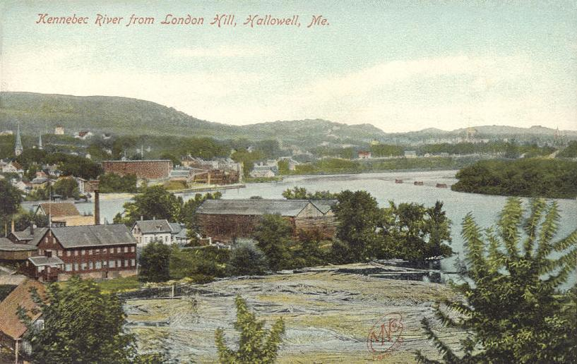 Kennebec River from London Hill, Hallowell, Maine; from a 1905 postcard published by the Metropolitan News Company, Boston, Massachusetts.